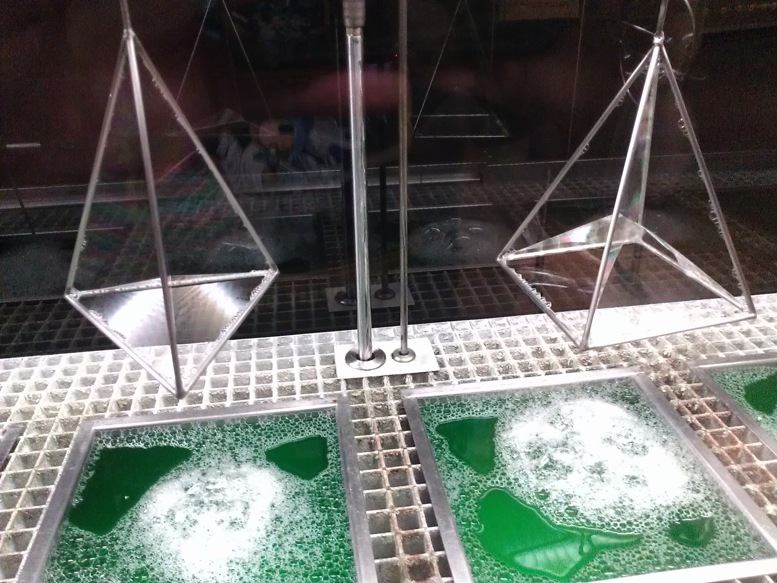 Plateau's problem example using wire and bubbles. Museum of Science of Alcobendas (Madrid).